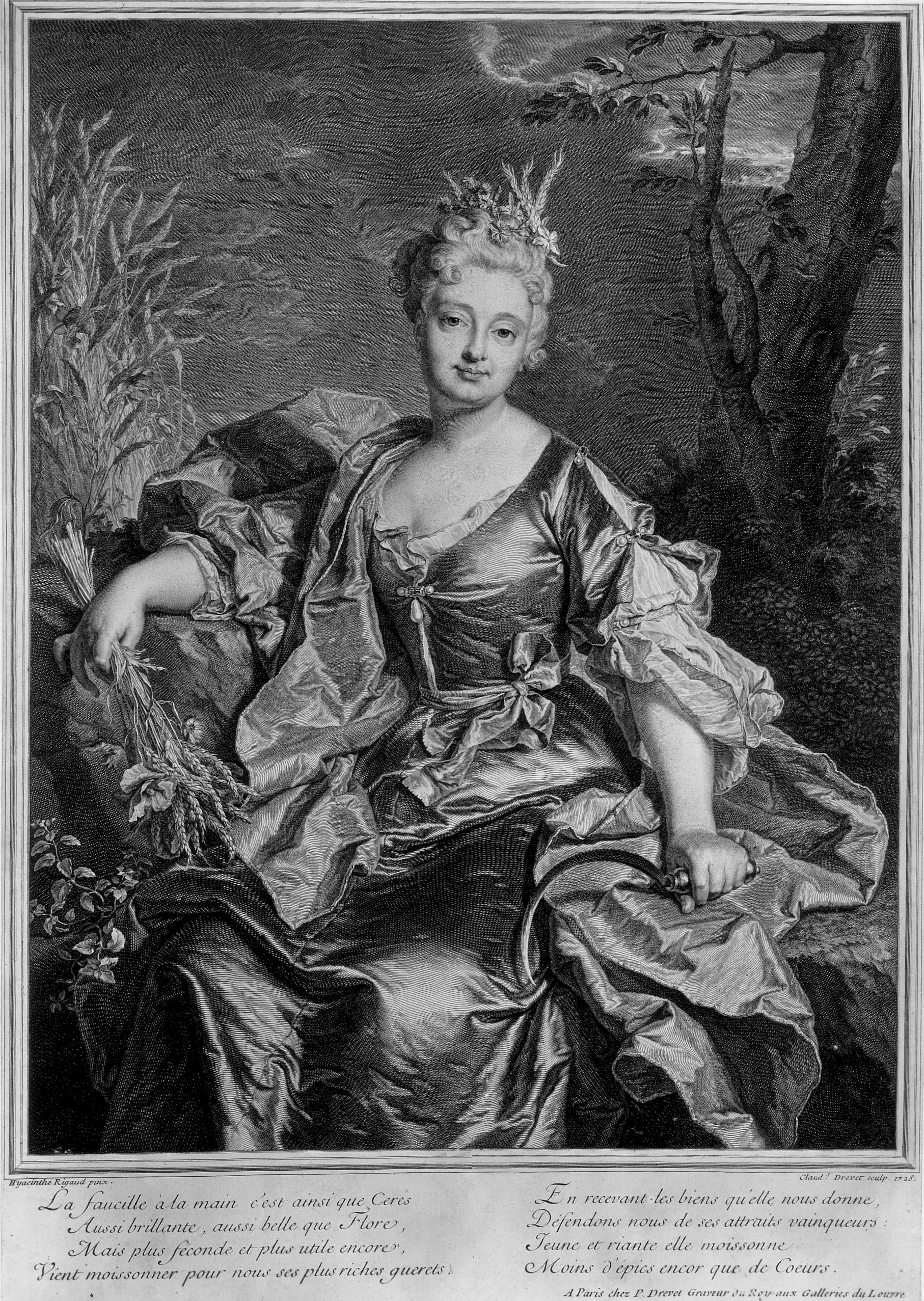 Portrait of Marguerite Henriette de La Briffe